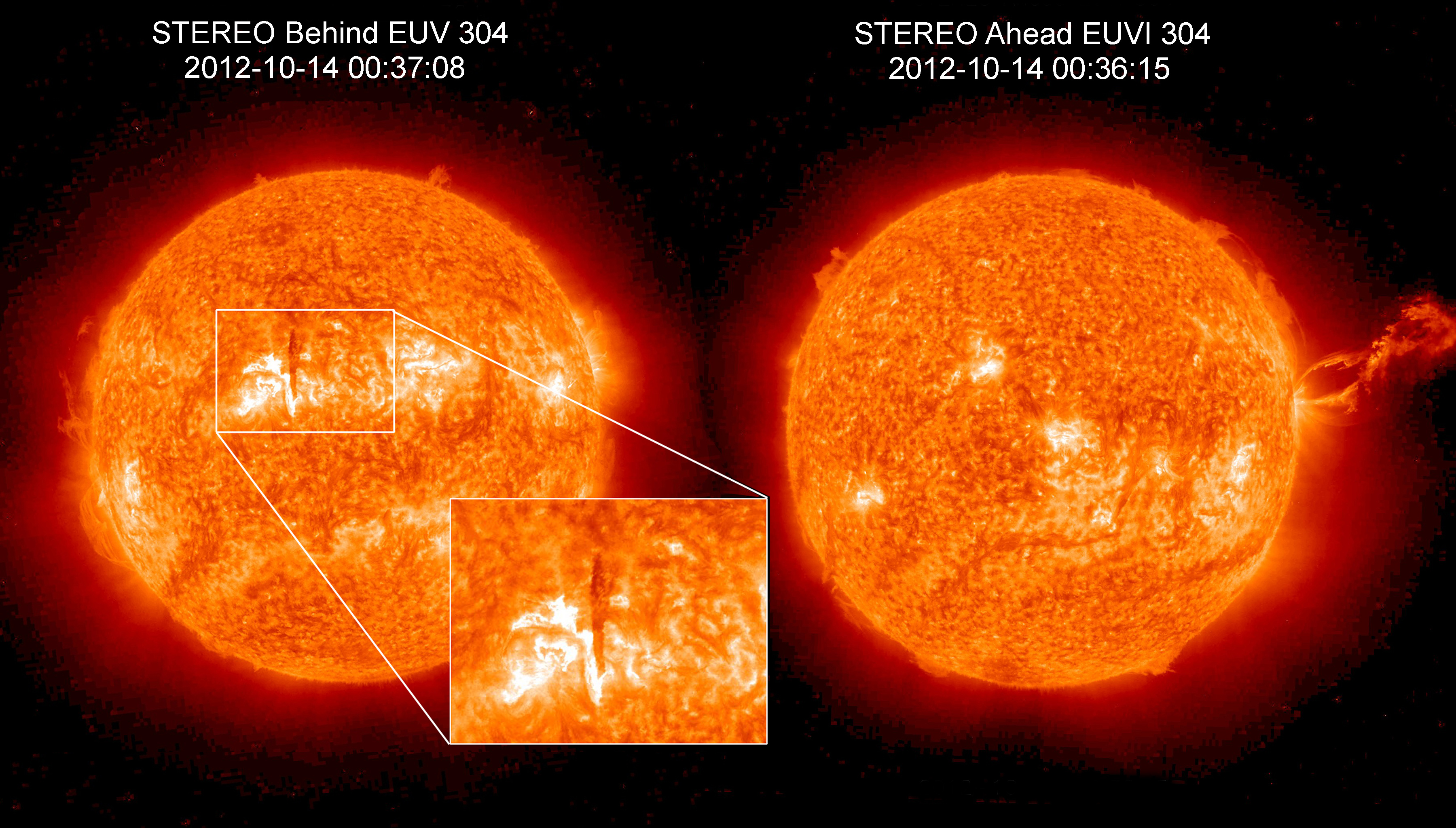 Each of these images was captured from a different perspective by one of NASA's Solar Terrestrial Relations Observatory (STEREO) spacecraft on 14 October 2012. The image on the left, STEREO-B, shows a dark vertical line slightly to the upper left of centre. Only by looking at the image on the right, captured at the same time by STEREO-A from a different location, is this feature revealed to be a giant prominence of solar material bursting through the sun's atmosphere.